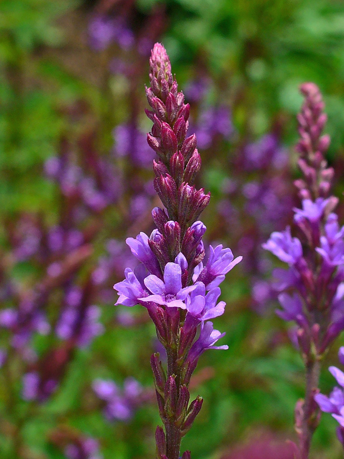 Verbena hastata, Verbenaceae, Blue Vervain, Swamp Verbena, inflorescence.